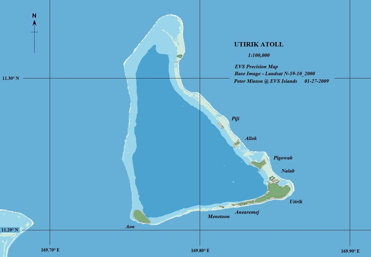 Enhanced vector shoreline map of Utirik Atoll, RMI, based on Landsat image.